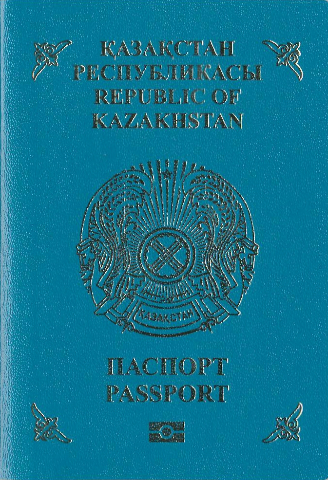 The cover of Kazakhstani biometric passport